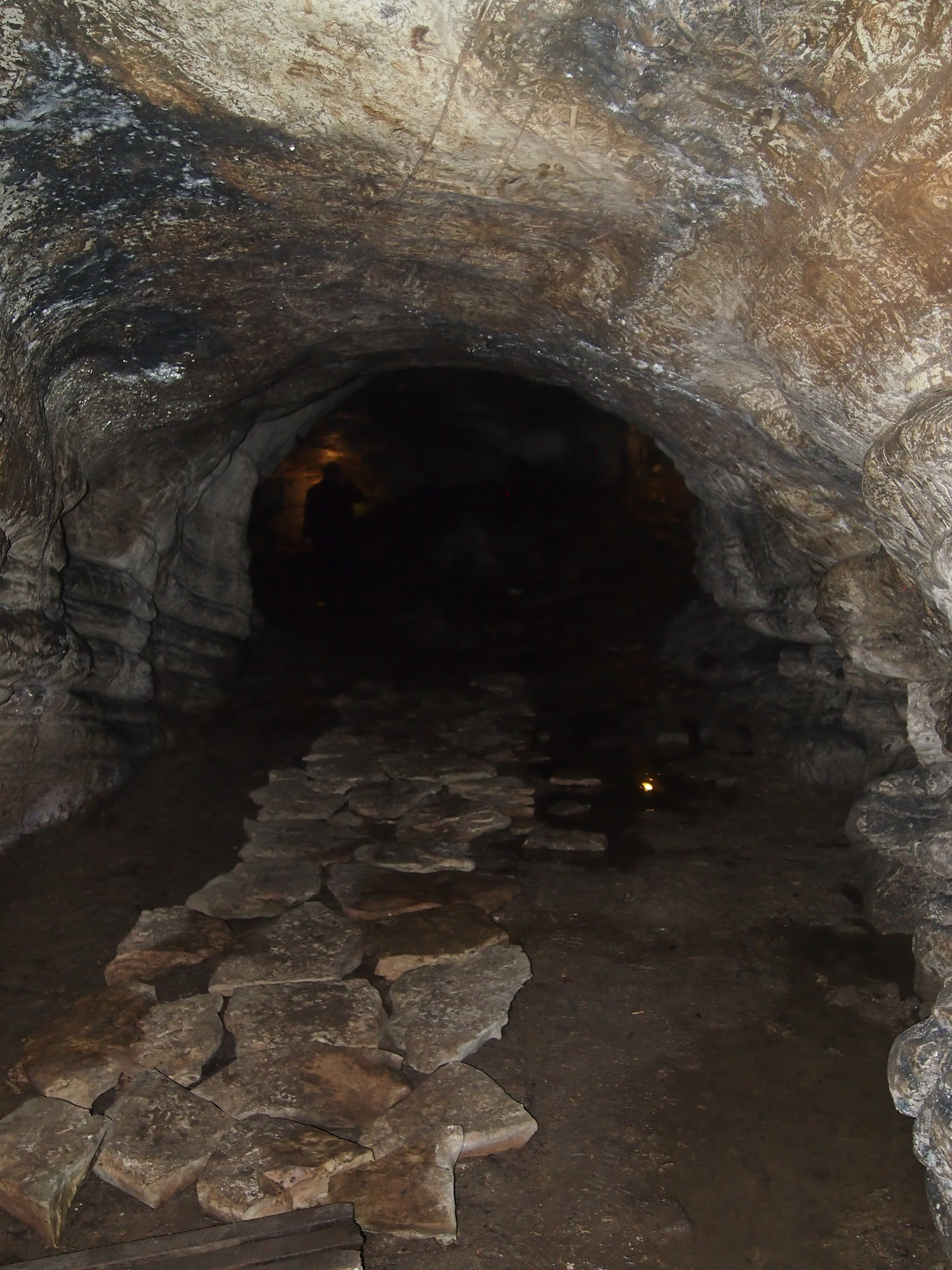 Akhshtyrskaya Cave, Western Caucasus